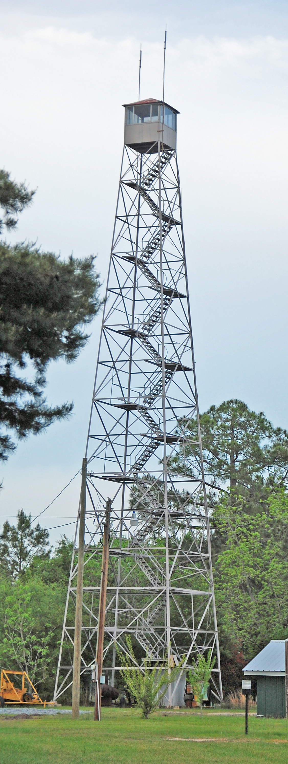 Fire lookout tower in south Georgia, USA - used to look for fires